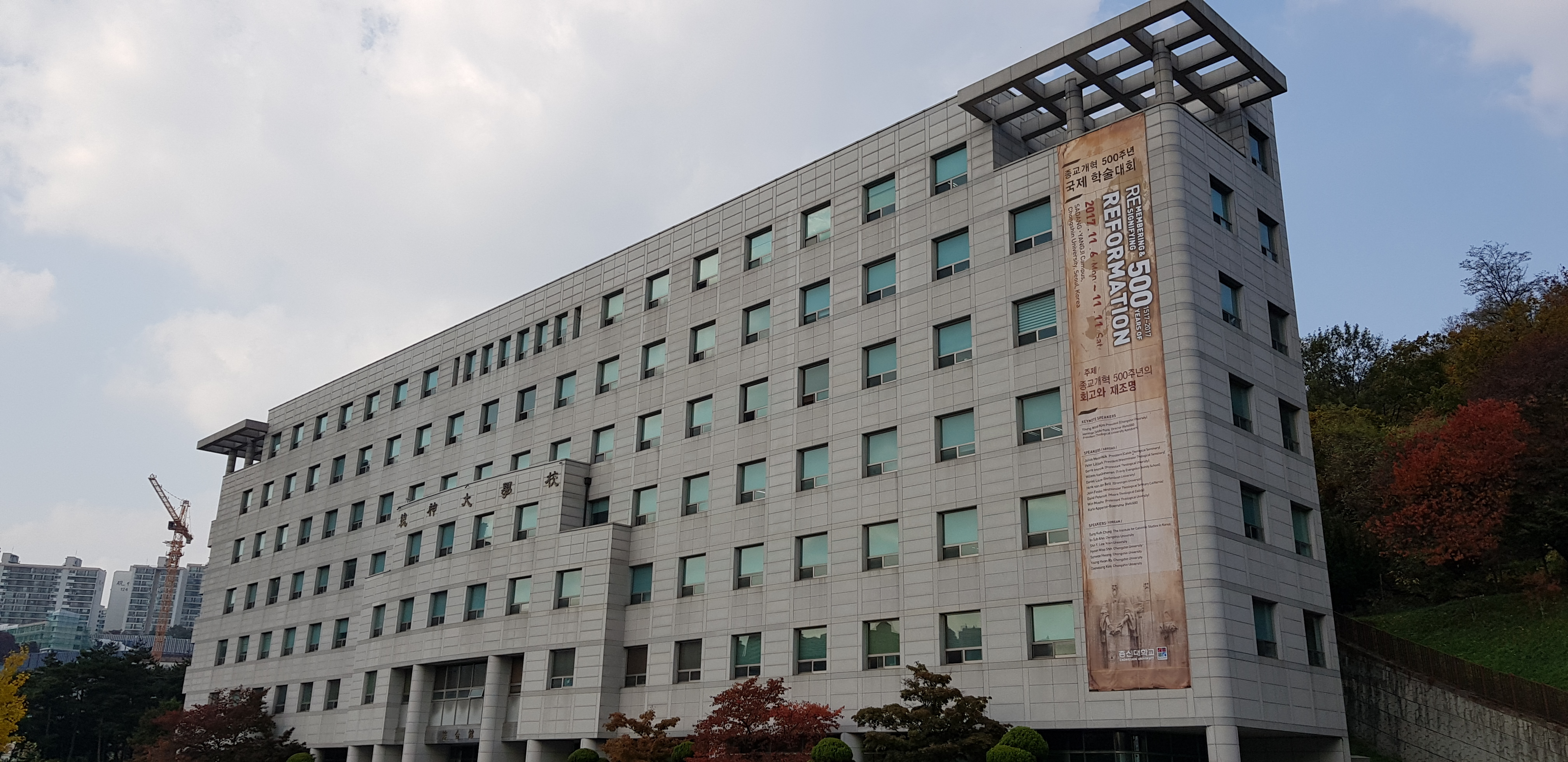 Main building of Chongshin University